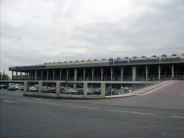 Airport «Manas»